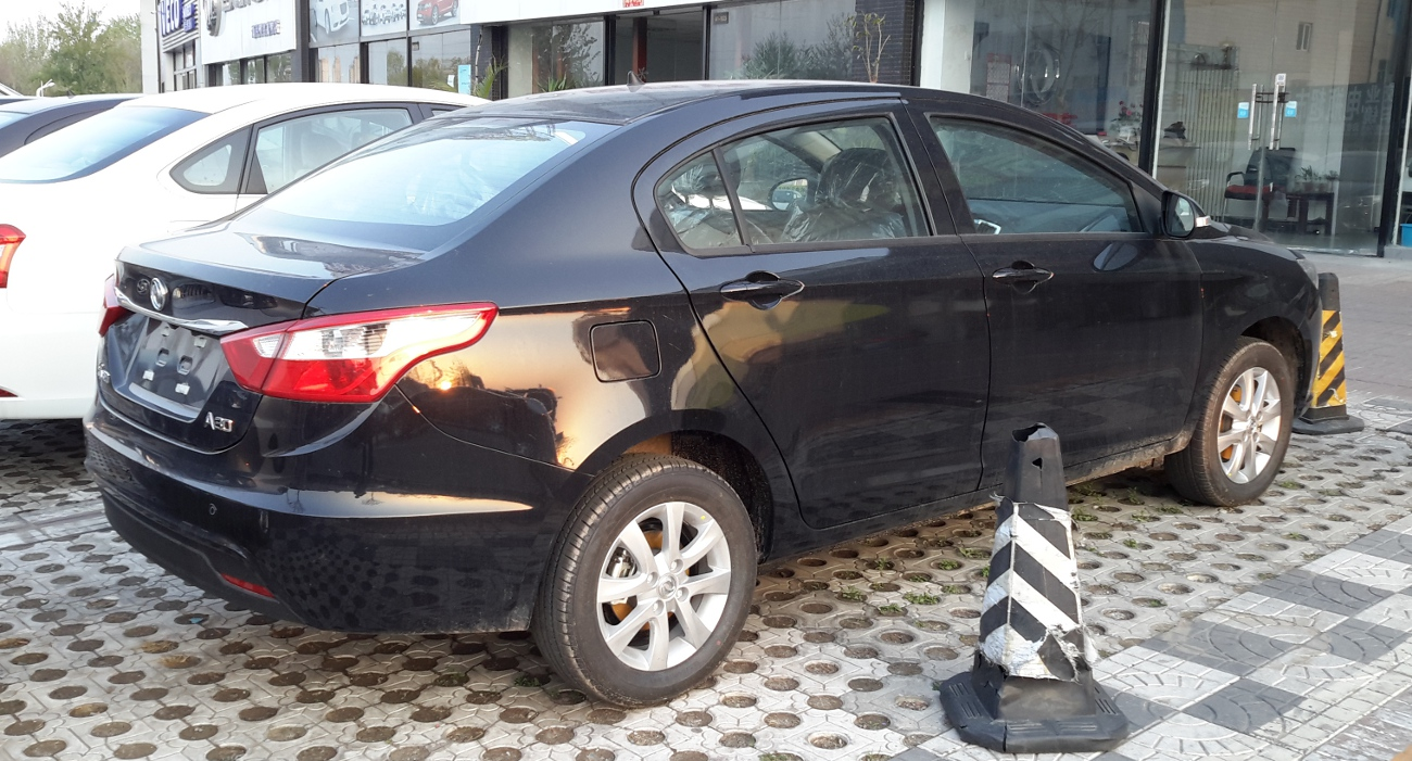 Dongfeng Fengshen A30 photographed in Beijing, China.